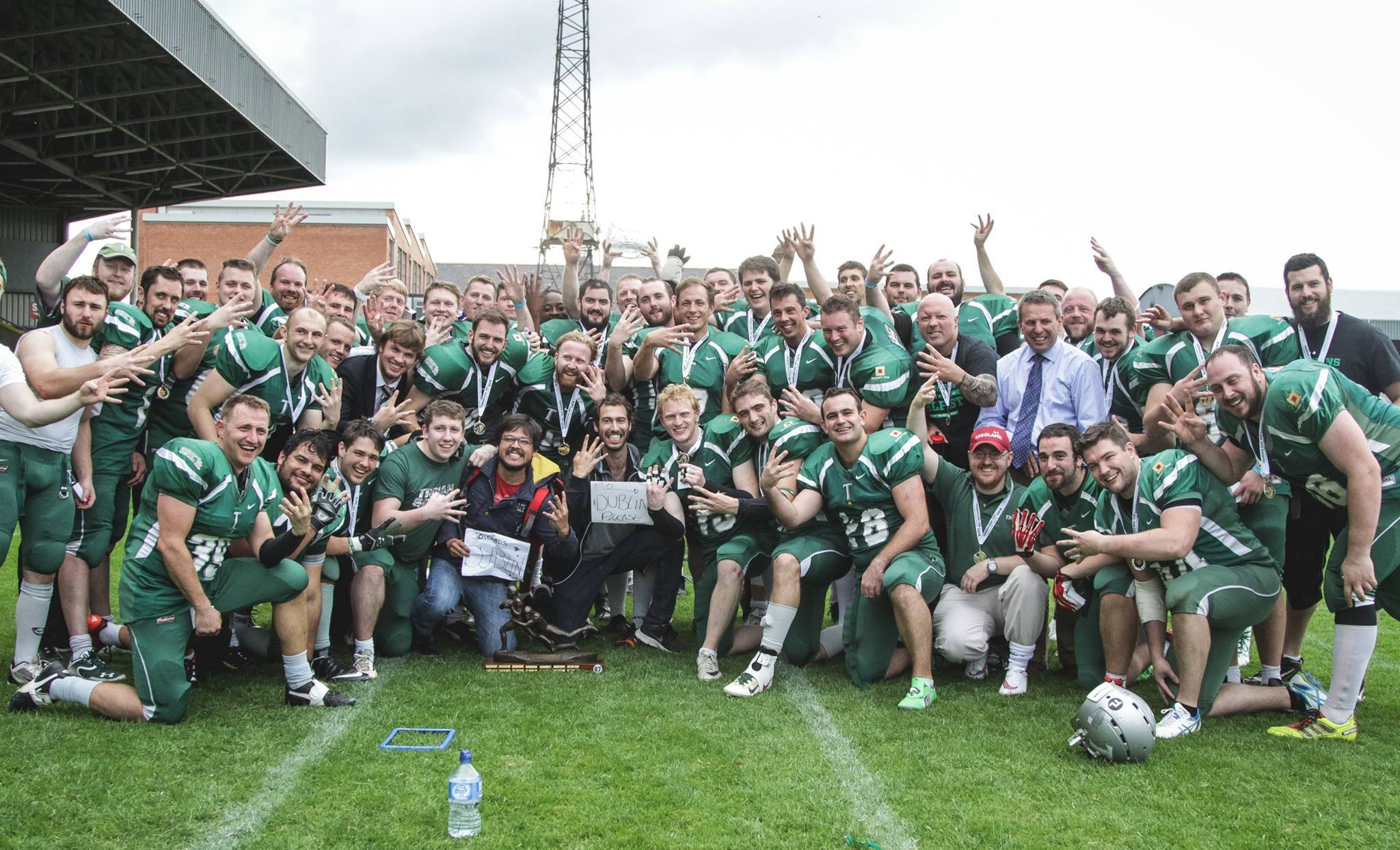 Belfast Trojans 4 time Shamrock Bowl Champions